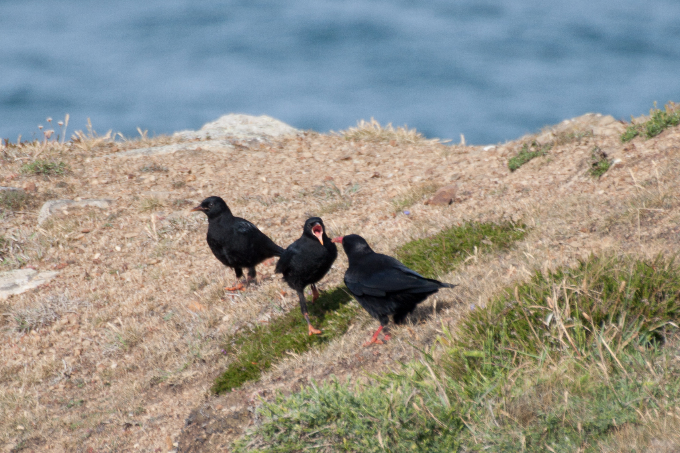 Chough (Pyrrhocorax pyrrhocorax) feeding its young. Pembrokeshire, United Kingdom.